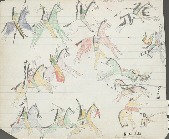 Anonymous ledger drawing of Kiowa mounted warfare with traditional Indian enemies.